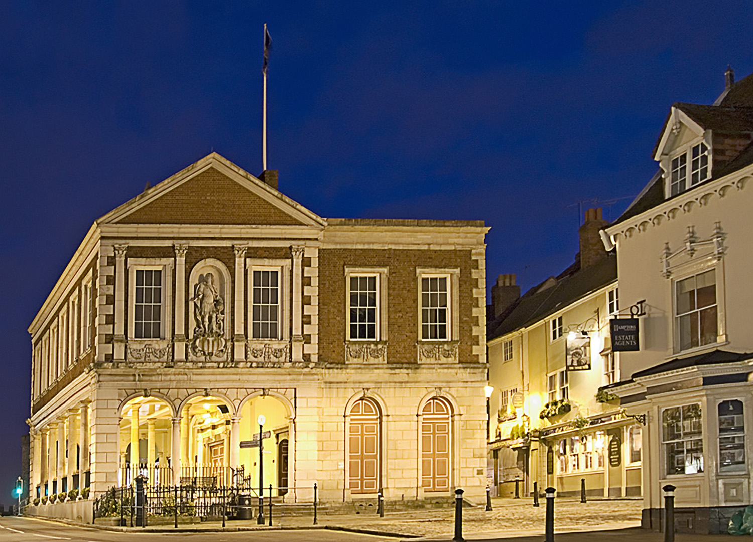 Windsor Guildhall opened in 1689. Night shot showing the south side with the open ground floor known as the Cornmarket with the statue of Prince George of Denmark above that was installed in 1713. To the right is the 1829 extension. Brown brick and stone.